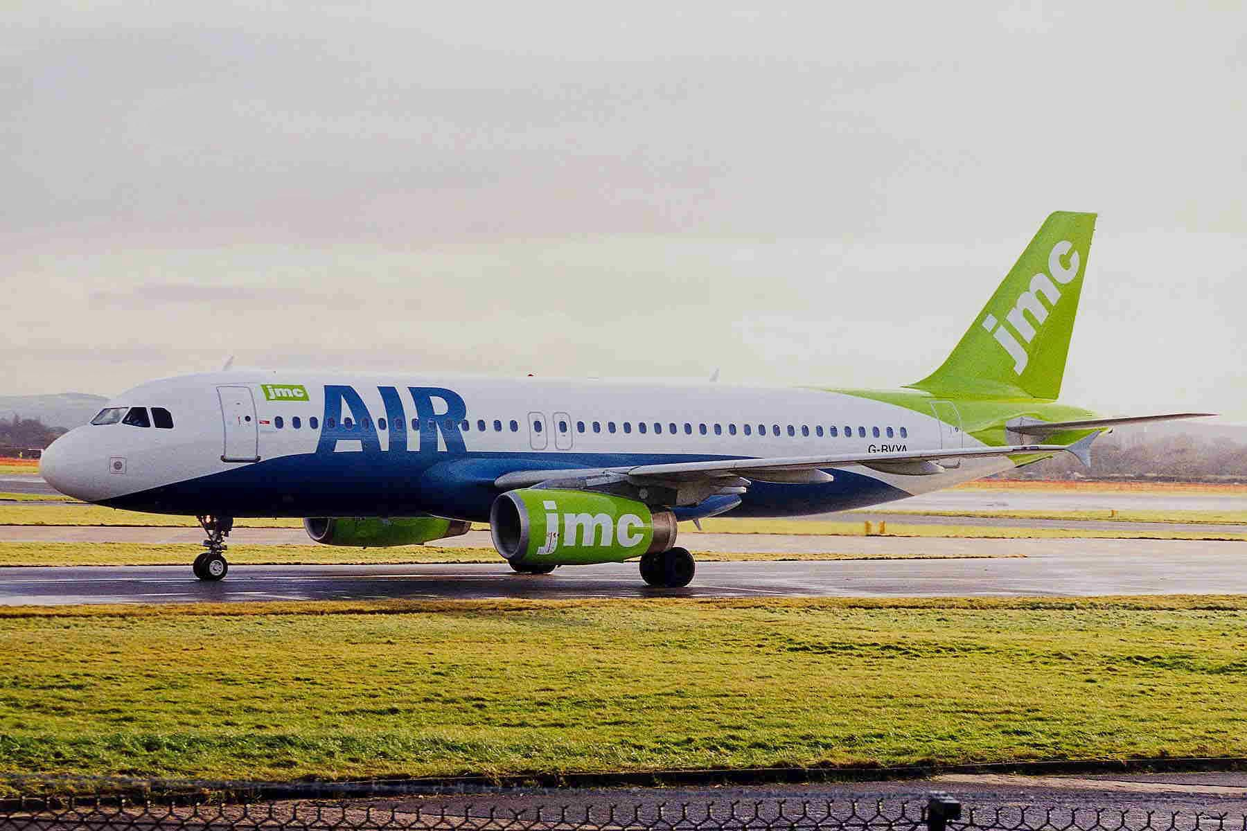 A picture of an airplane (name of it is on the file name).